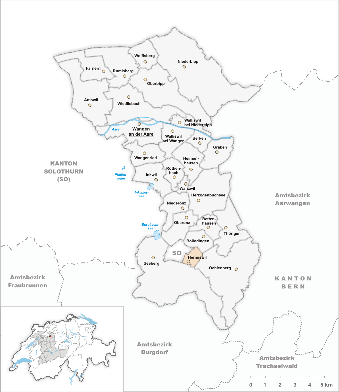 Municipality Hermiswil